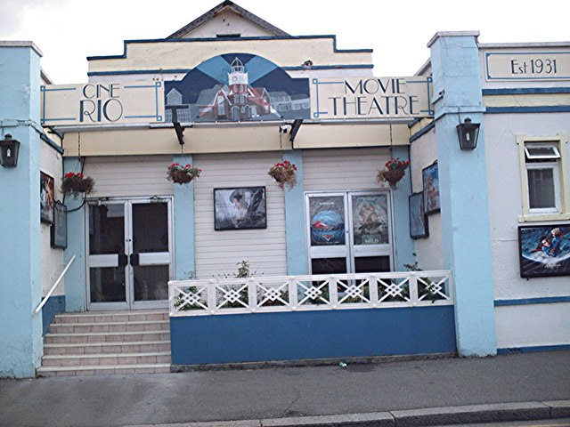 The Rio Movie Theatre. Burnham's "fleapit". It has however that certain charm lacking in your average multiplex.